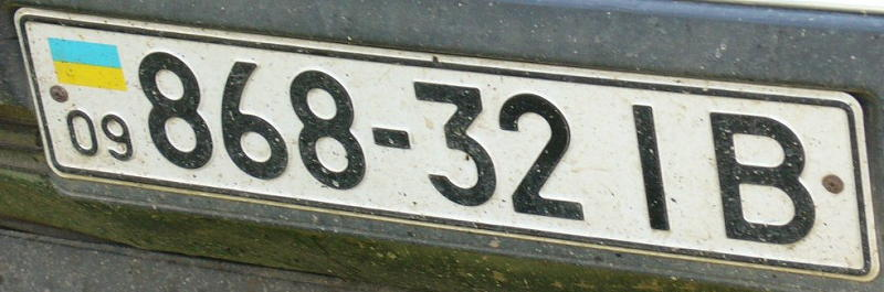 License plate from Ivano-Frankivsk Oblast, Ukraina. Series issued since (1995) to March 2004.